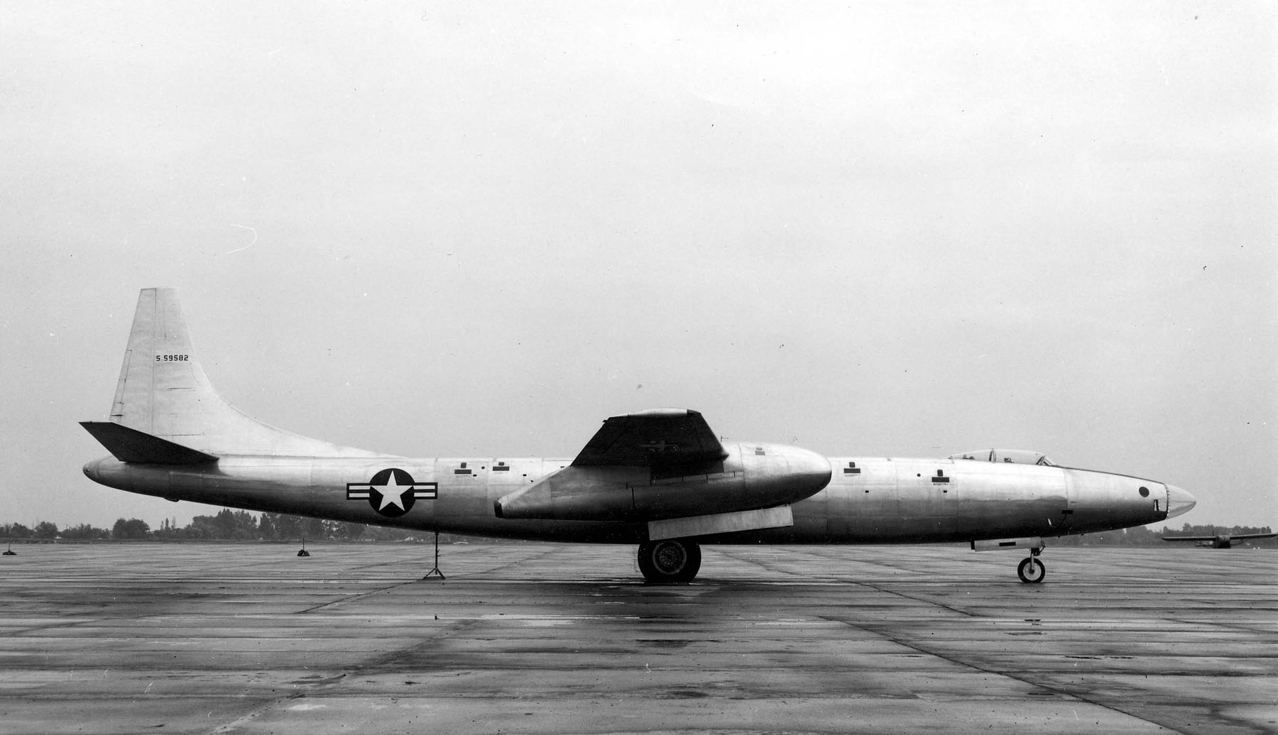 Convair XB-46